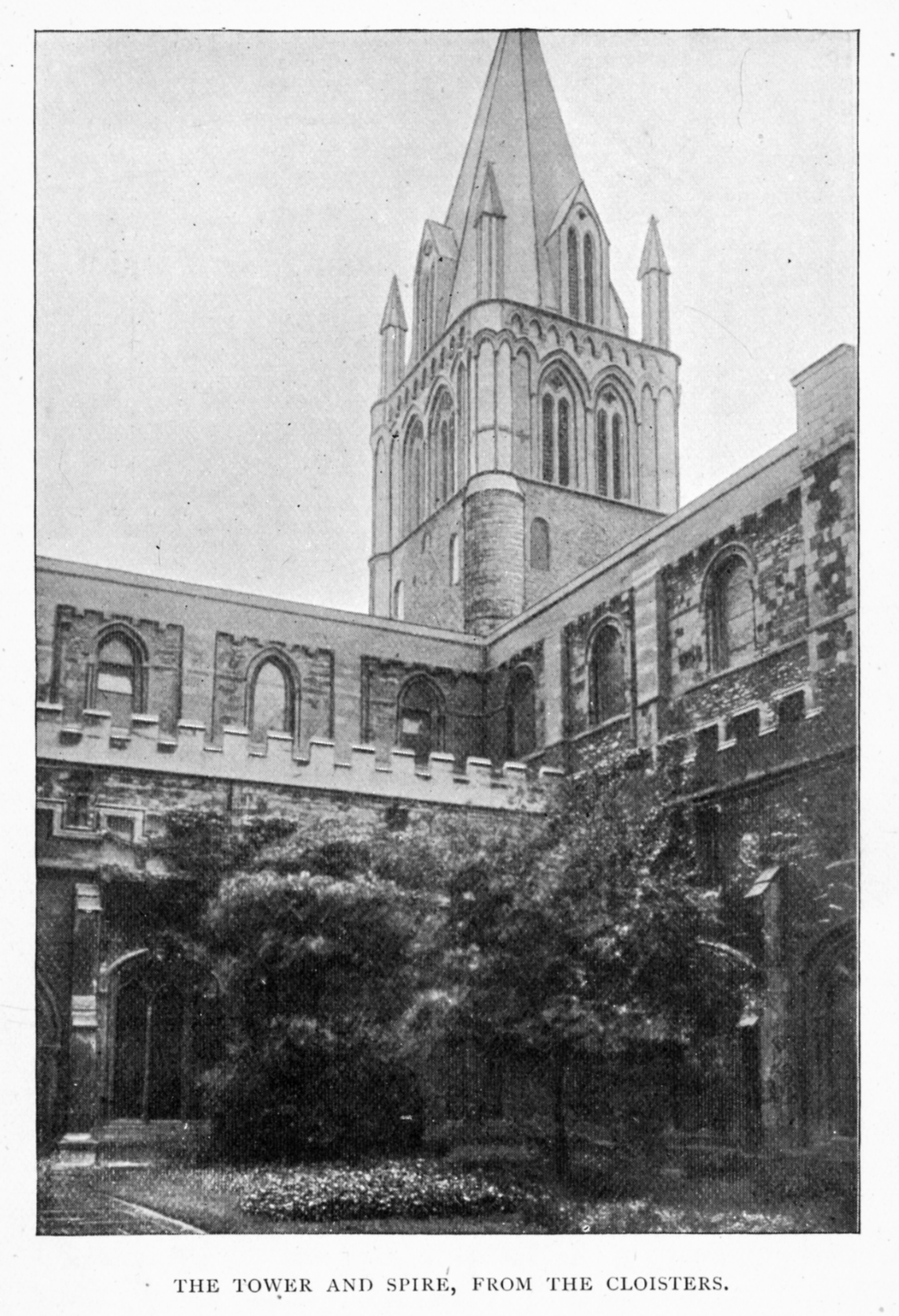 illustration from book given in "Source"